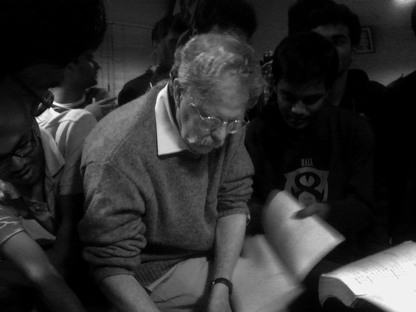 David Griffiths signing autographs for physics students at IIT Kanpur, where he was invited to give a talk as a part of Techkriti 2014.